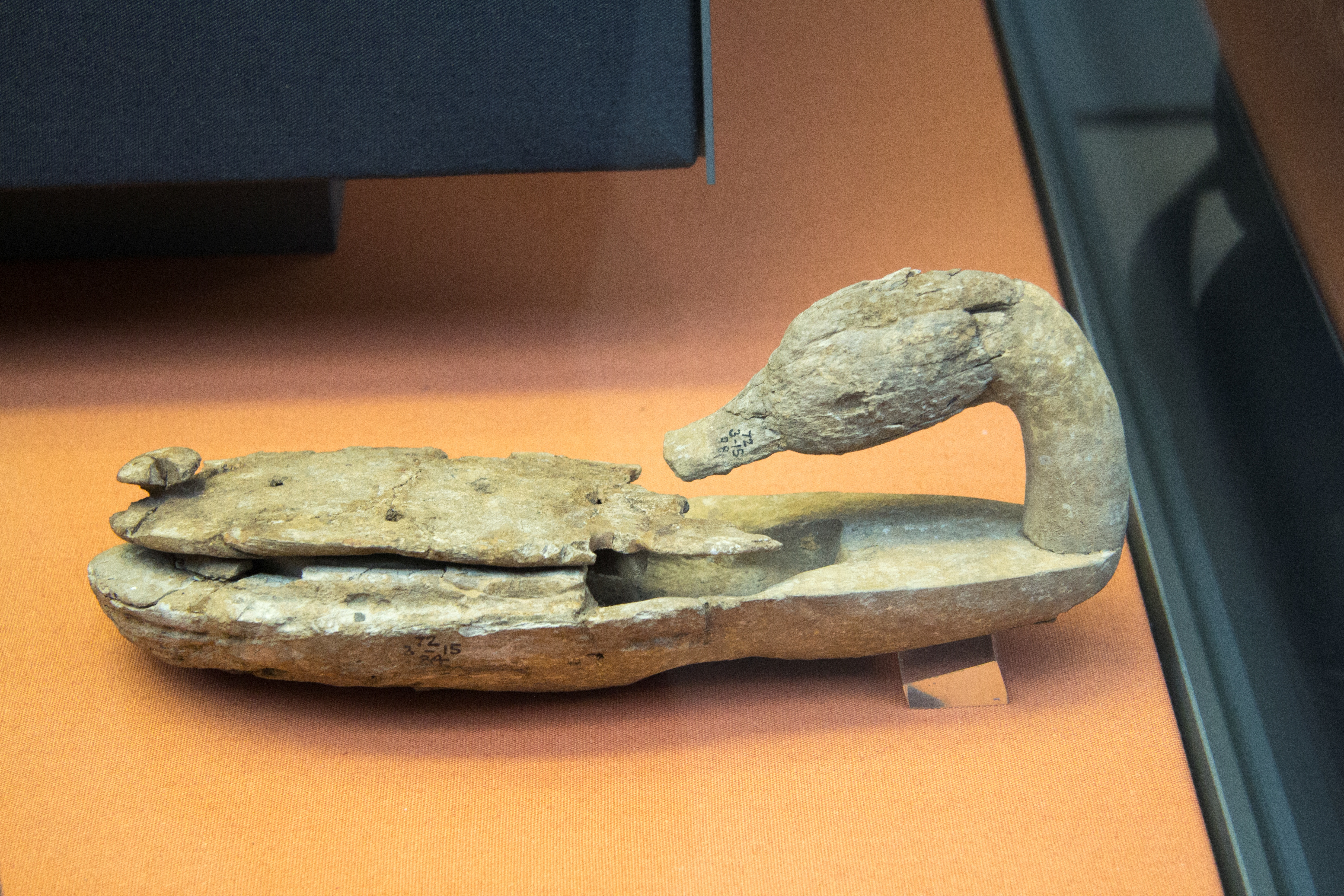 Ivory cosmetic box in the form of a duck. Mycenaean, 1375-1300 BC (LH IIIa). Found at Ialysos, Rhodes. British Museum, GR 1872.3-15.84,85 and 88.